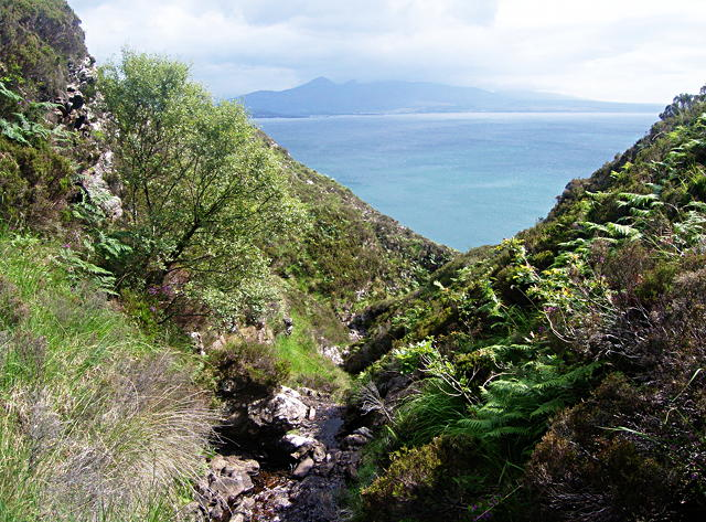 V-shaped stream valley This water-cut gorge offers views across to the eastern tip of Skye.